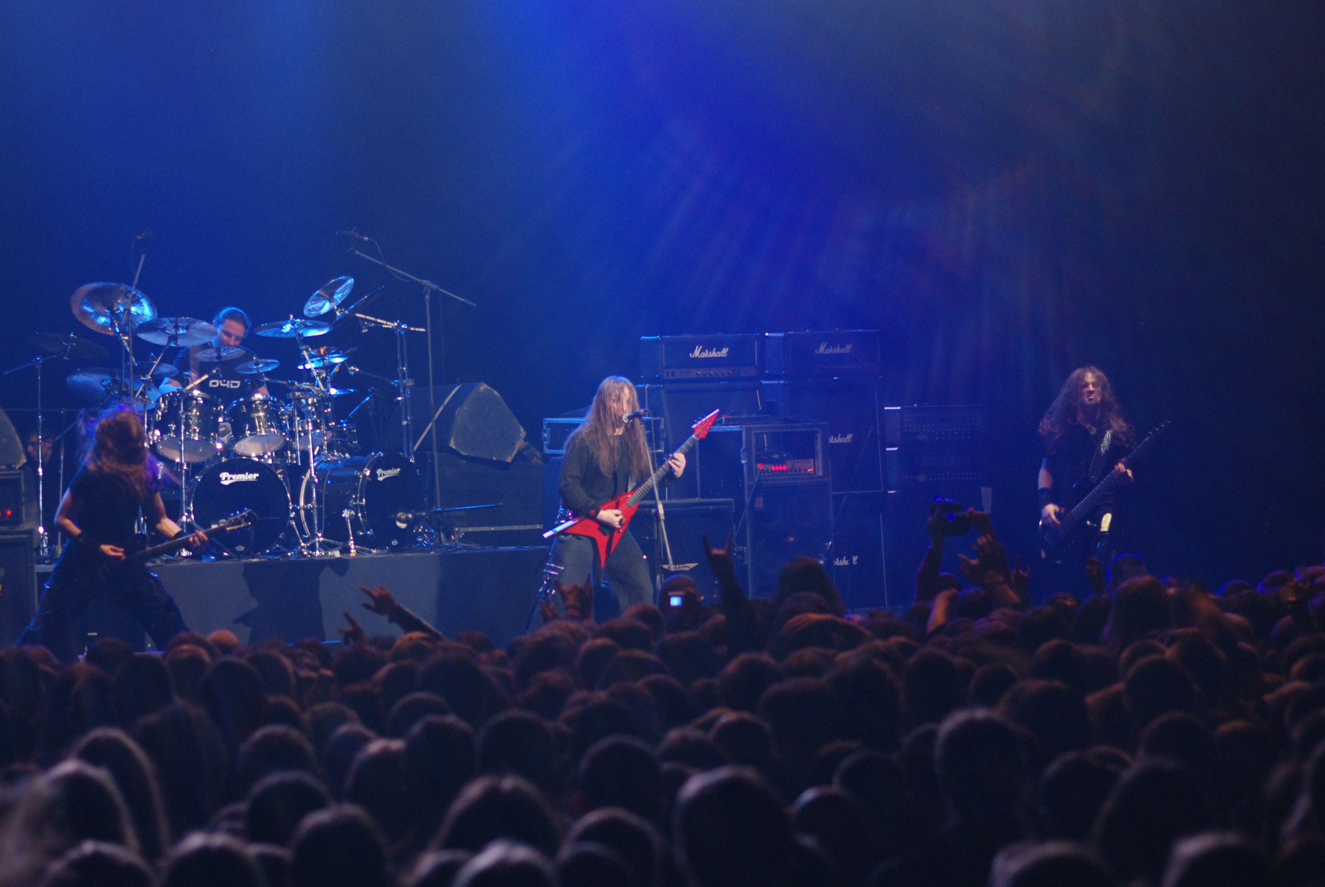 Vader during Metalmania 2008 festival